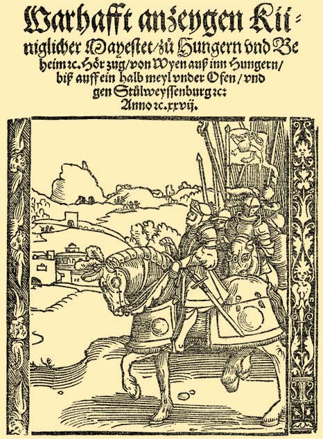 German tidings of the campaign of Ferdinand I, in Hungary